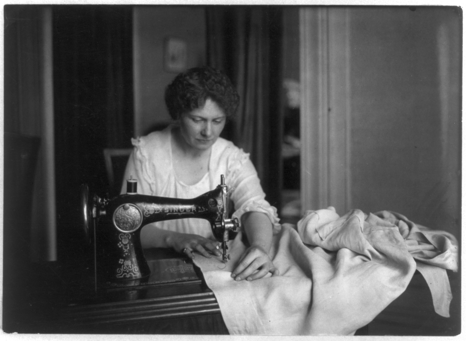 Bust portrait, facing slightly right, women's war work, World War, 1914-1918.